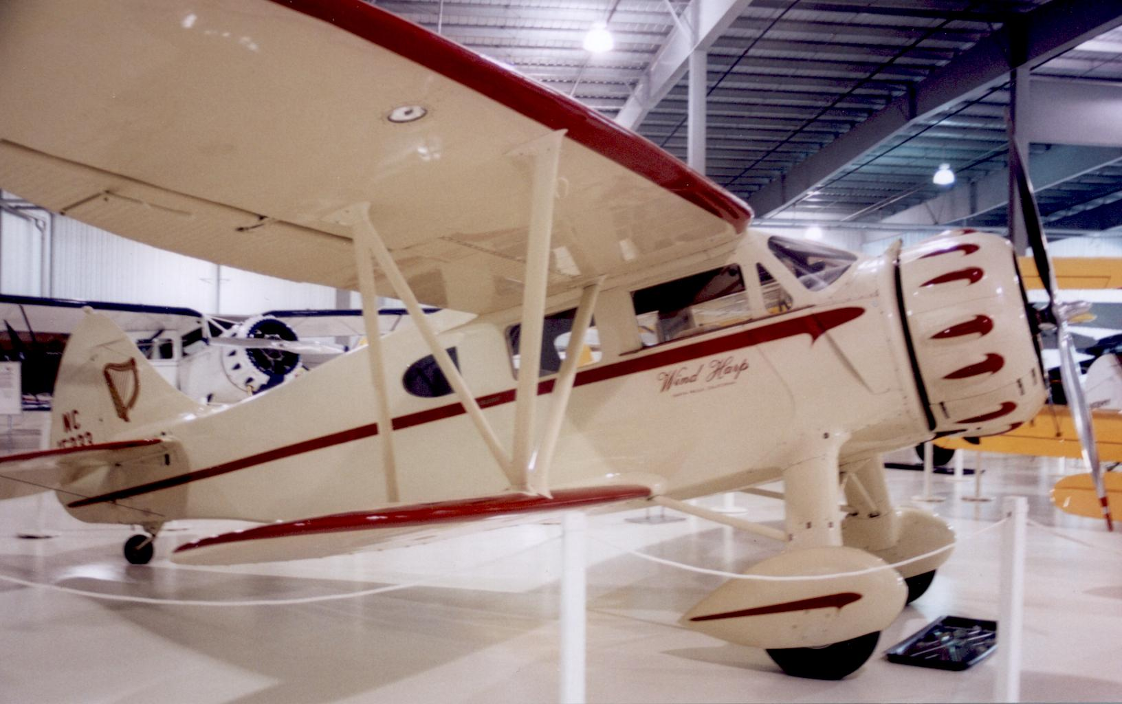 Waco CUC of 1935 showing the extended cabin and windows of this and later C series models. Herrick Collection, Anoka-Blaine Airport, Minnesota.